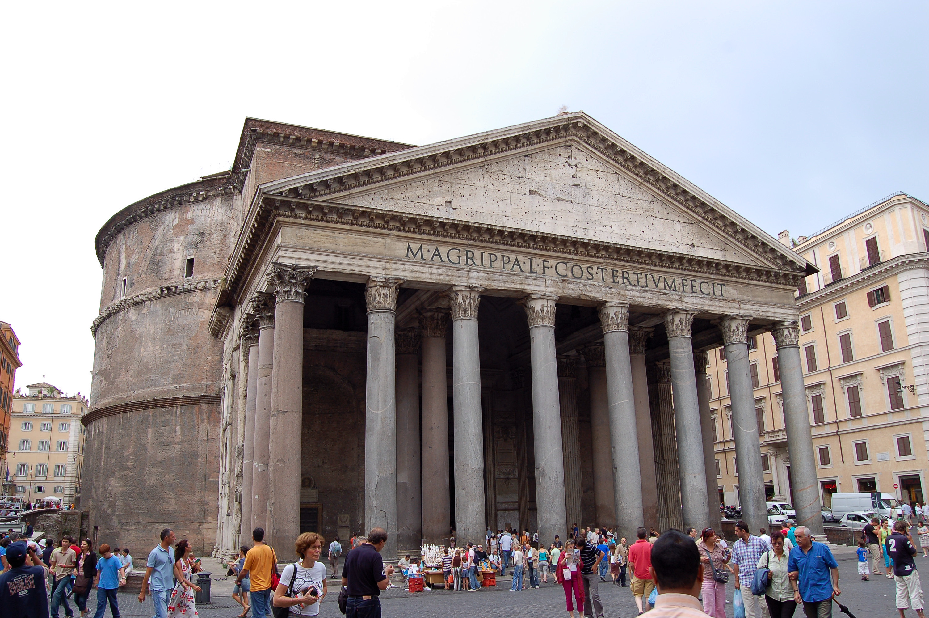 Roma - Pantheon